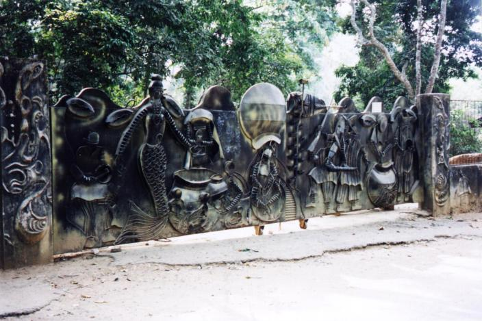 Temple of Osun in Osogbo - Osun state - Nigeria - Africa